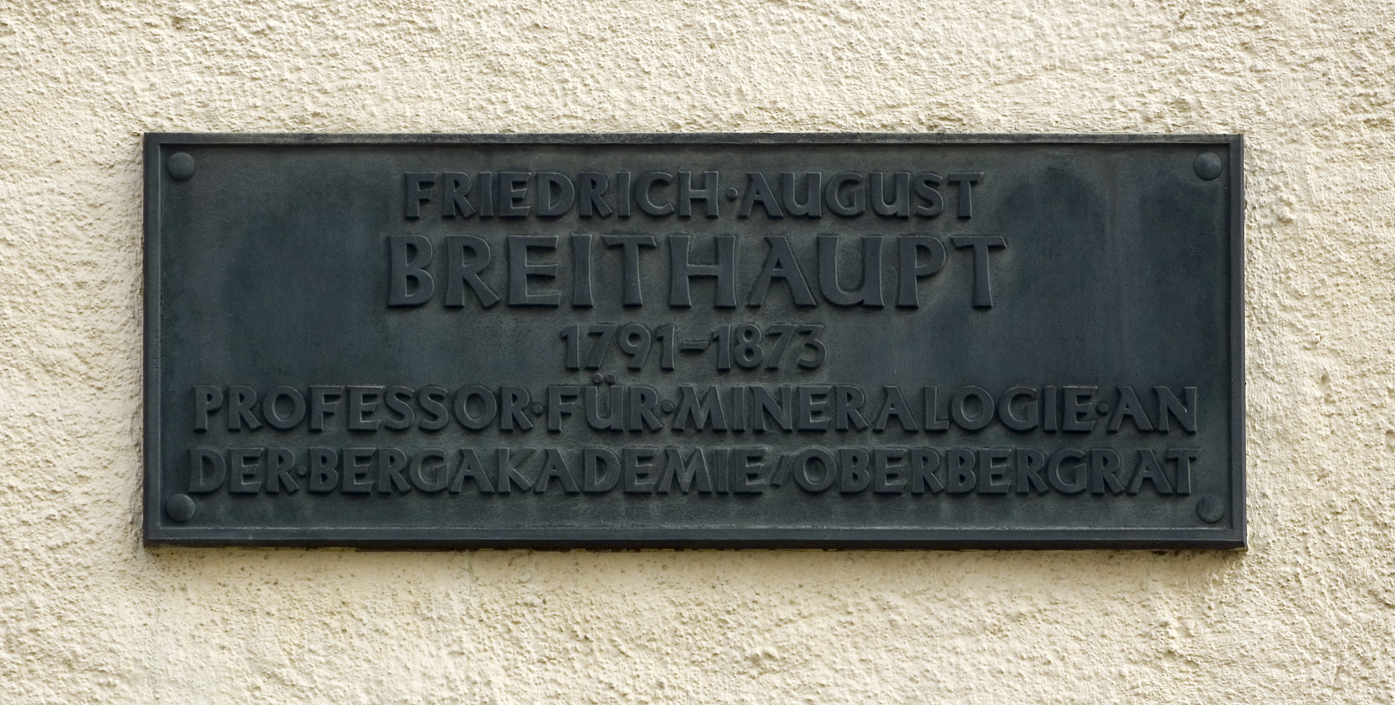 August Breithaupt, German mineralogist, plaque on his residence in Freiberg, Waisenhausstraße 10